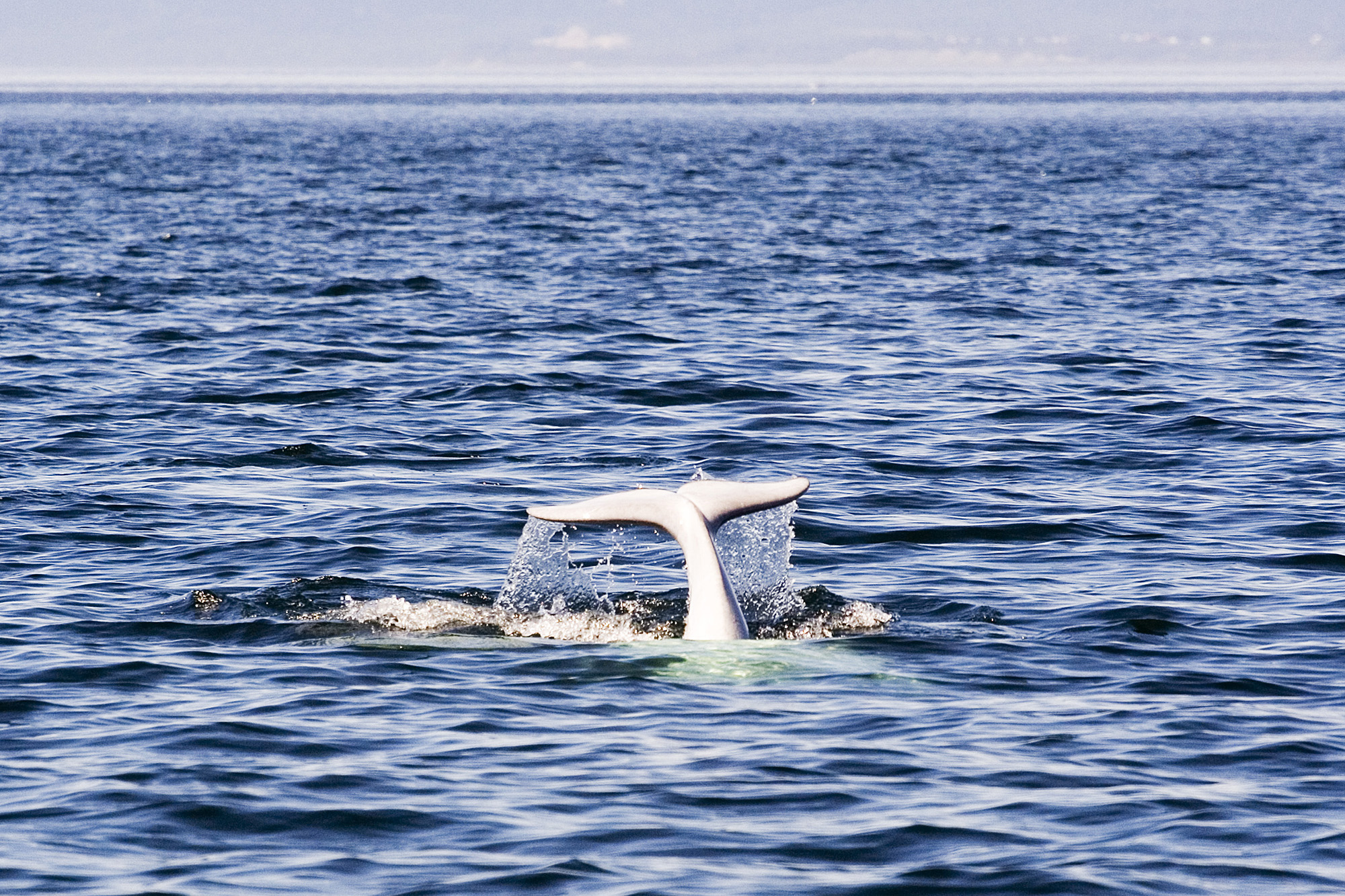 Beluga Whale (Delphinapterus leucas), Tadoussac, Quebec, Canada.